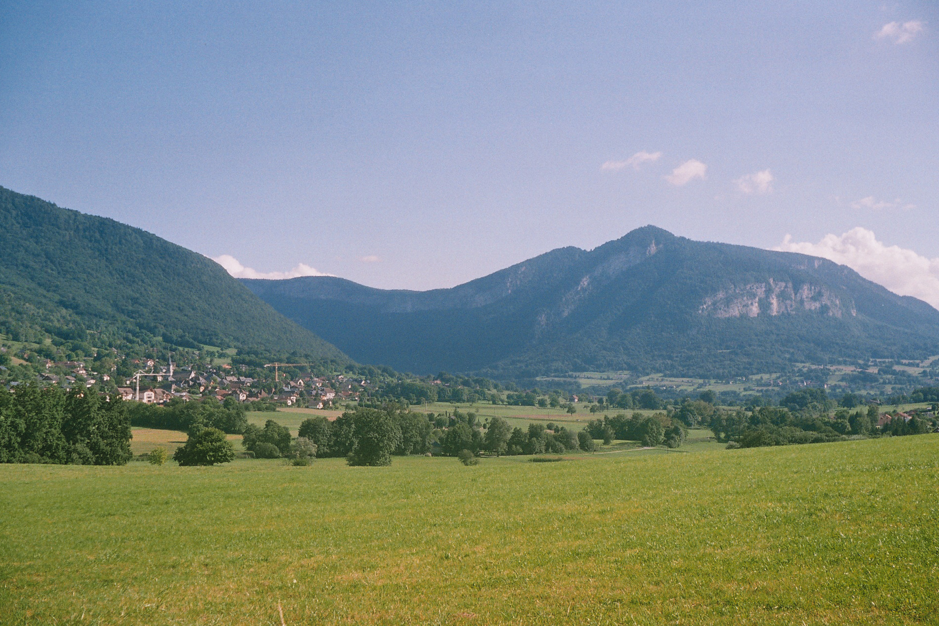 Gruffy village (Haute-Savoie, France) and the surrounding area